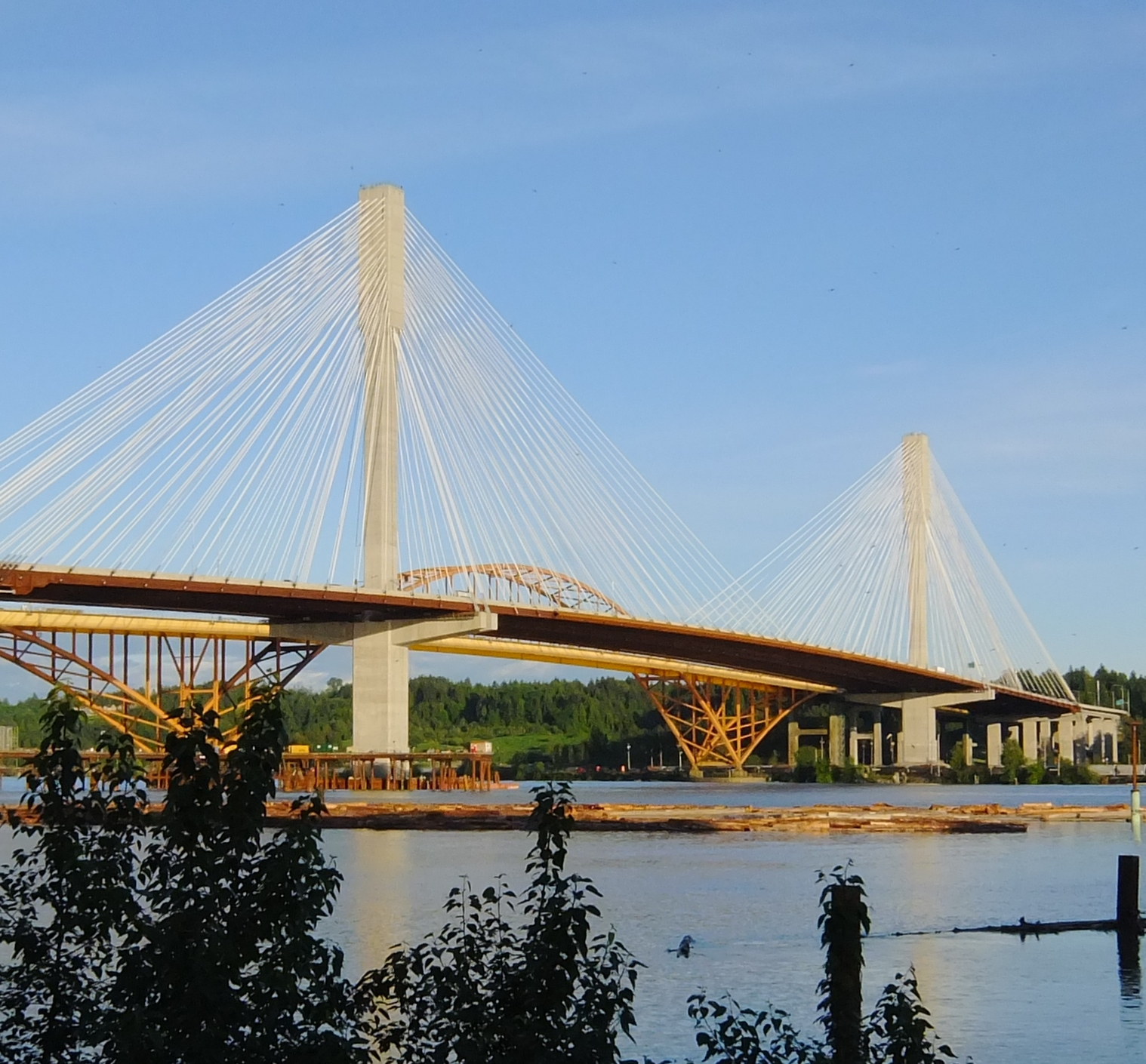 From Coquitlam, looking at Surrey.